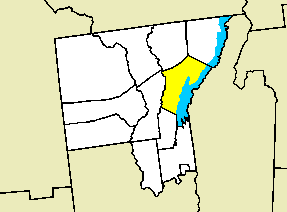 Map of Warren County, New York with town of Bolton highlighted.